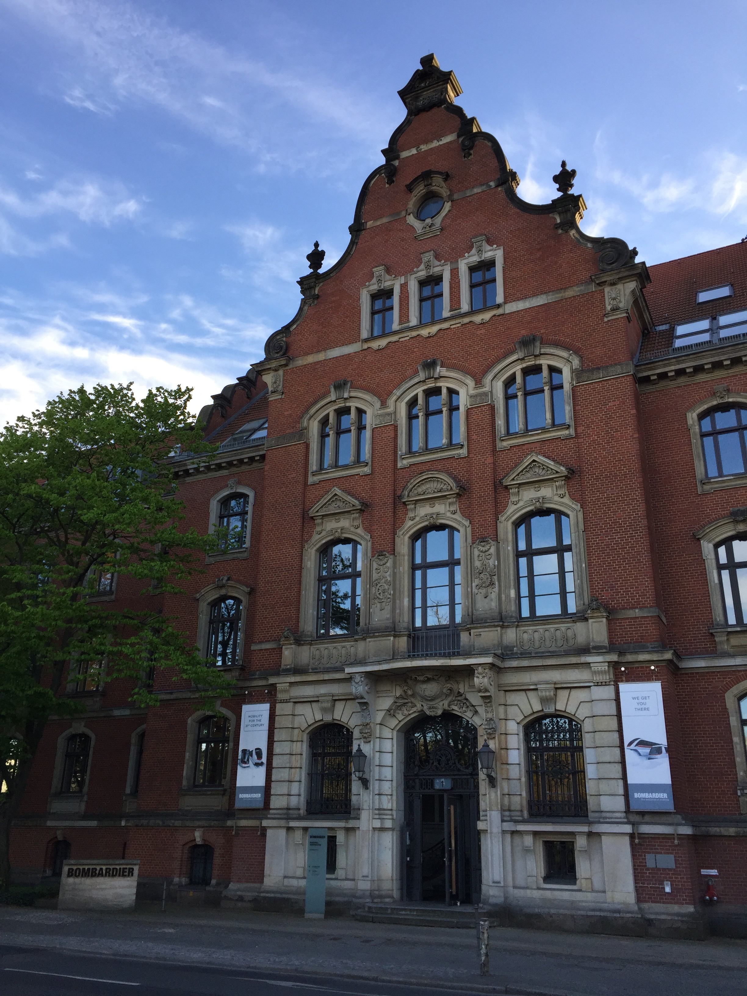 Facade of former building where Bombardier Transportation was headquartered in Berlin, Germany.